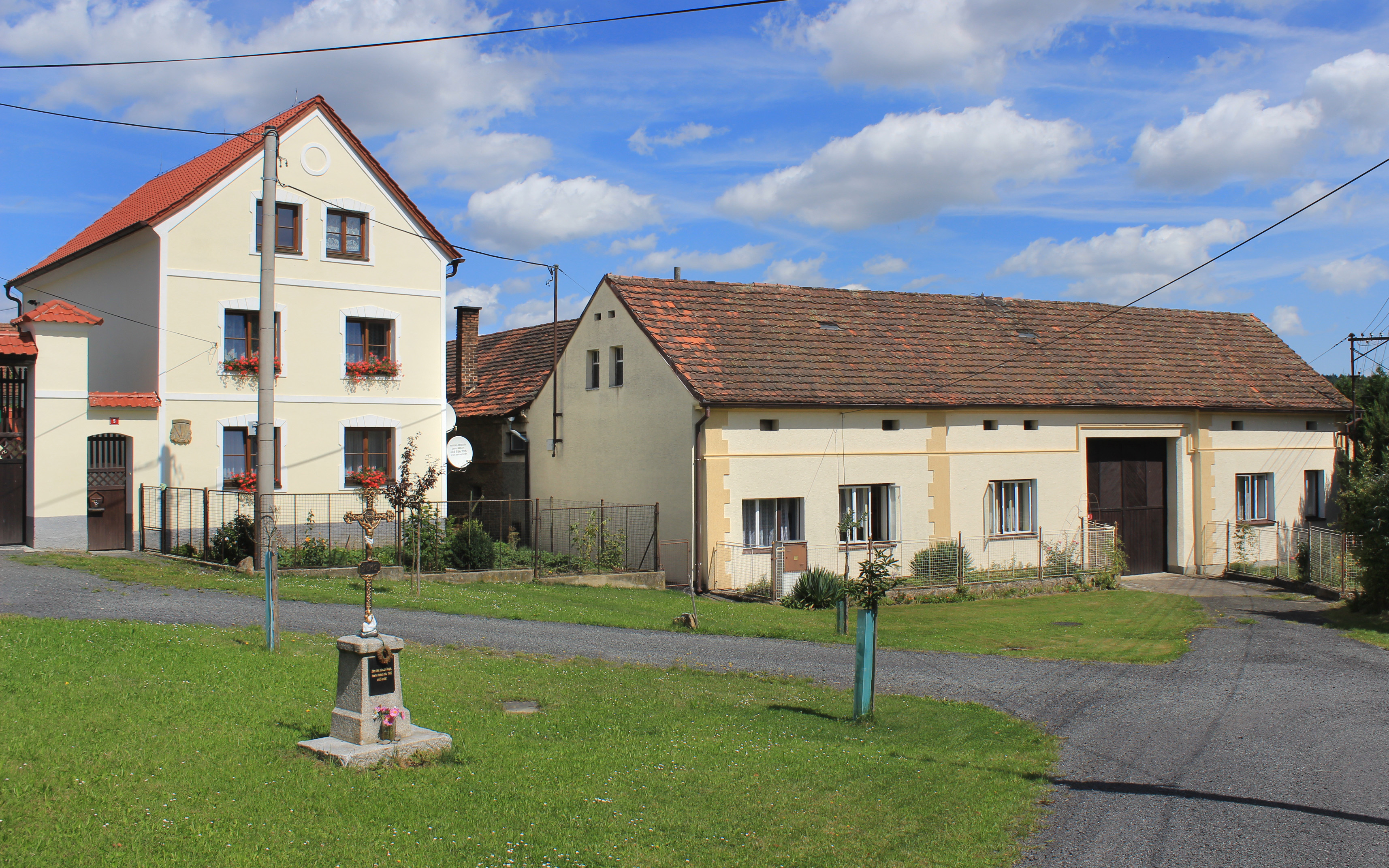 Common in Horní Kamenice, Czech Republic.